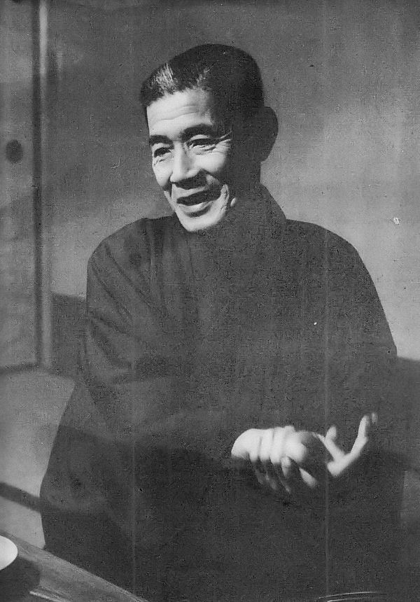 Seiroku Tsurusawa IV